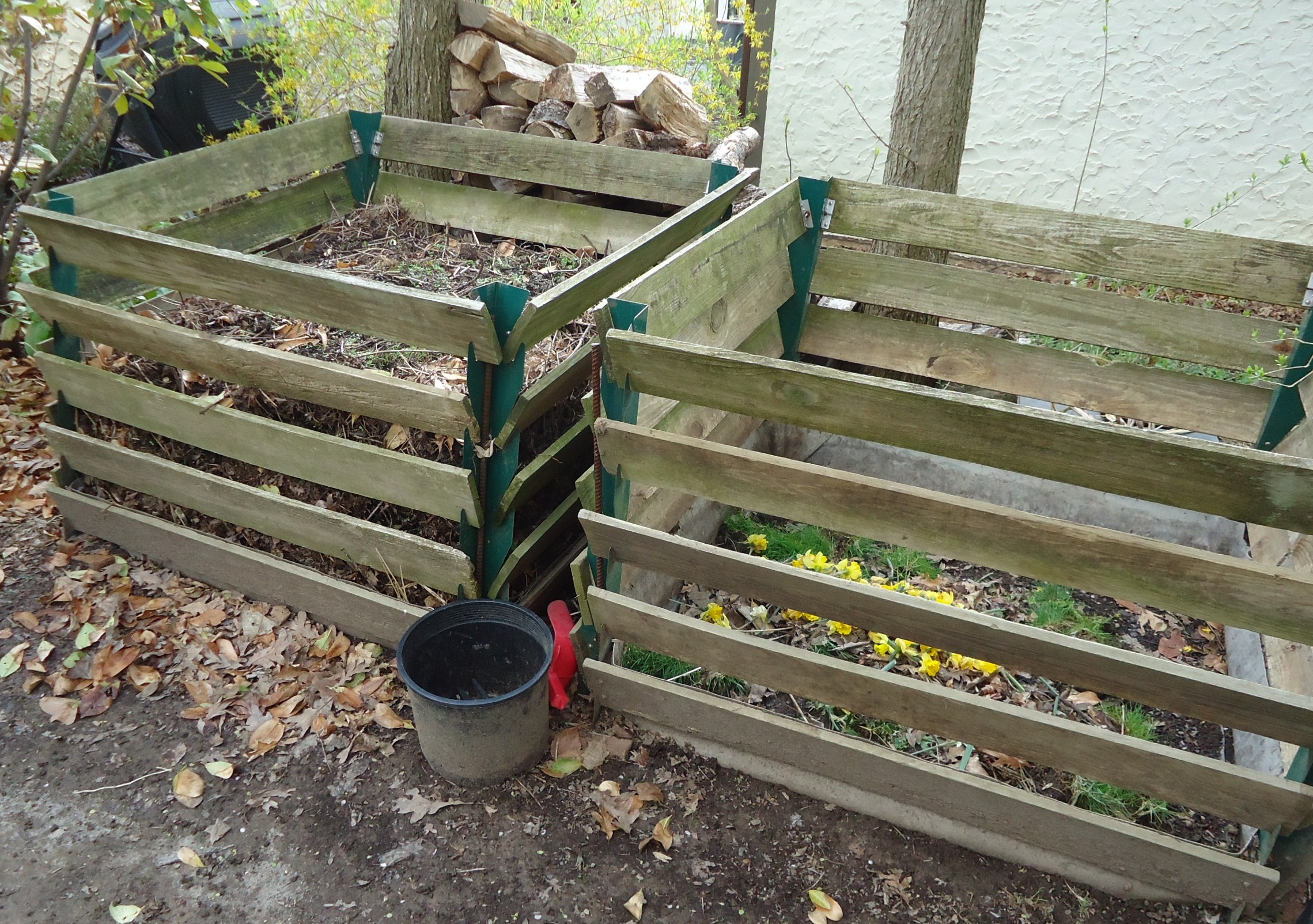 Compost bins for renewal of dead leaves.